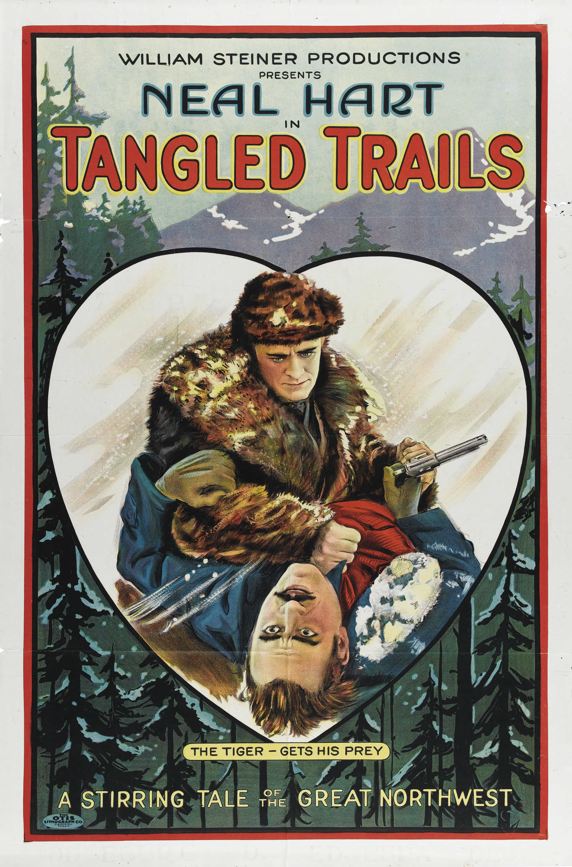 Poster for the American silent film Tangled Trails (1921).